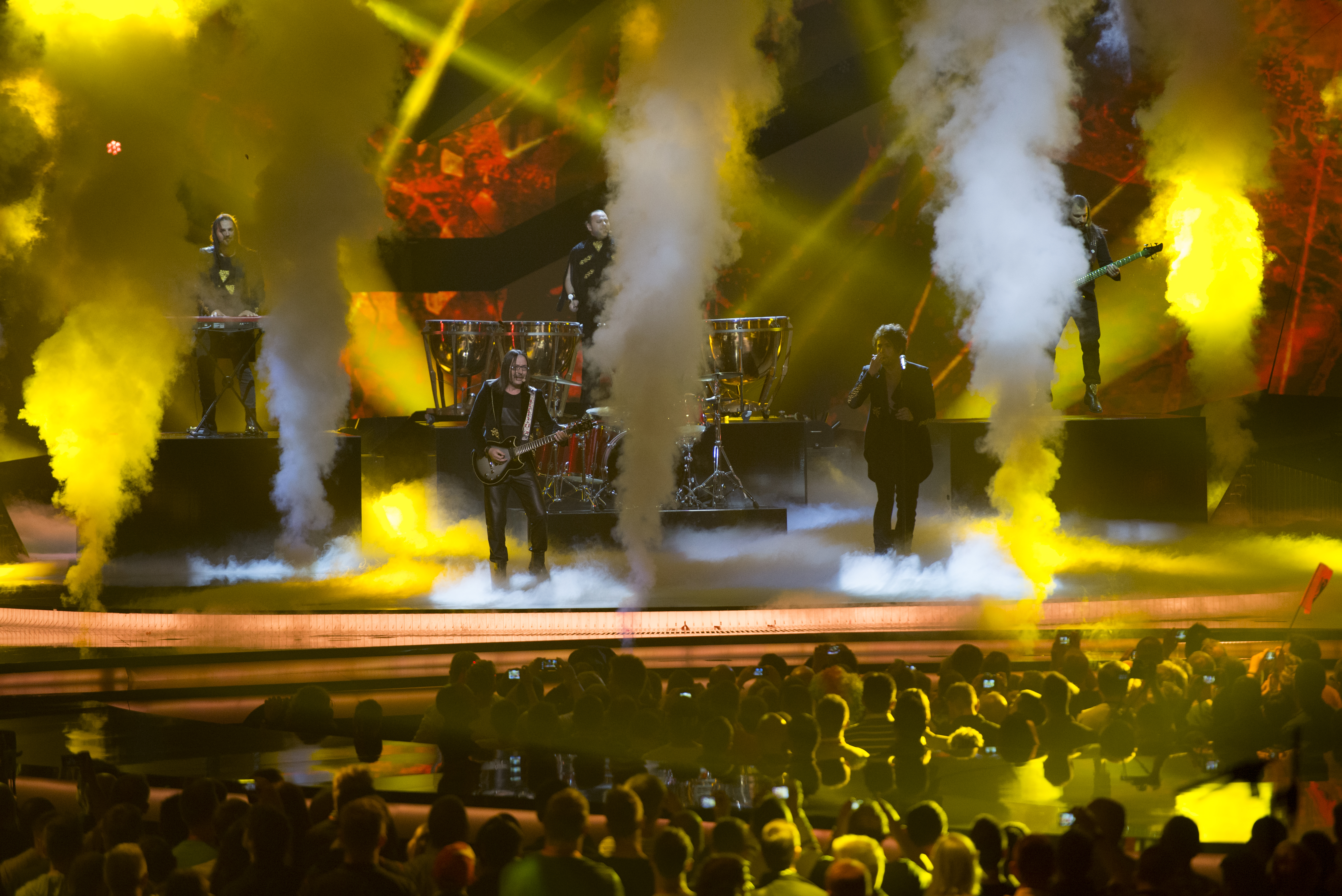 Adrian Lulgjuraj & Bledar Sejko from Albania performing their song in the second dress rehearsal for the second semi final of the Eurovision Song Contest 2013.